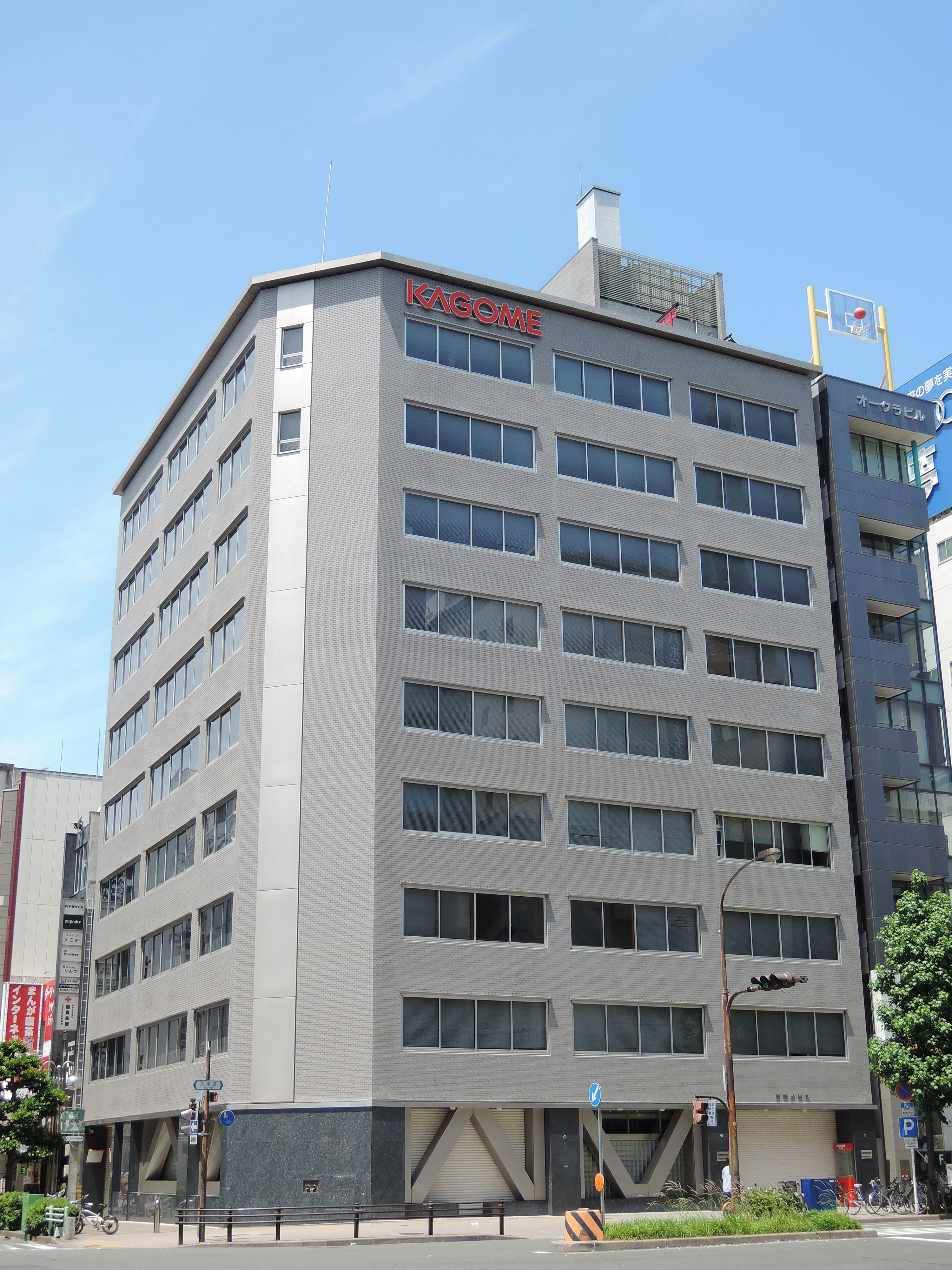 KAGOME building,Aichi prefecture,Japan